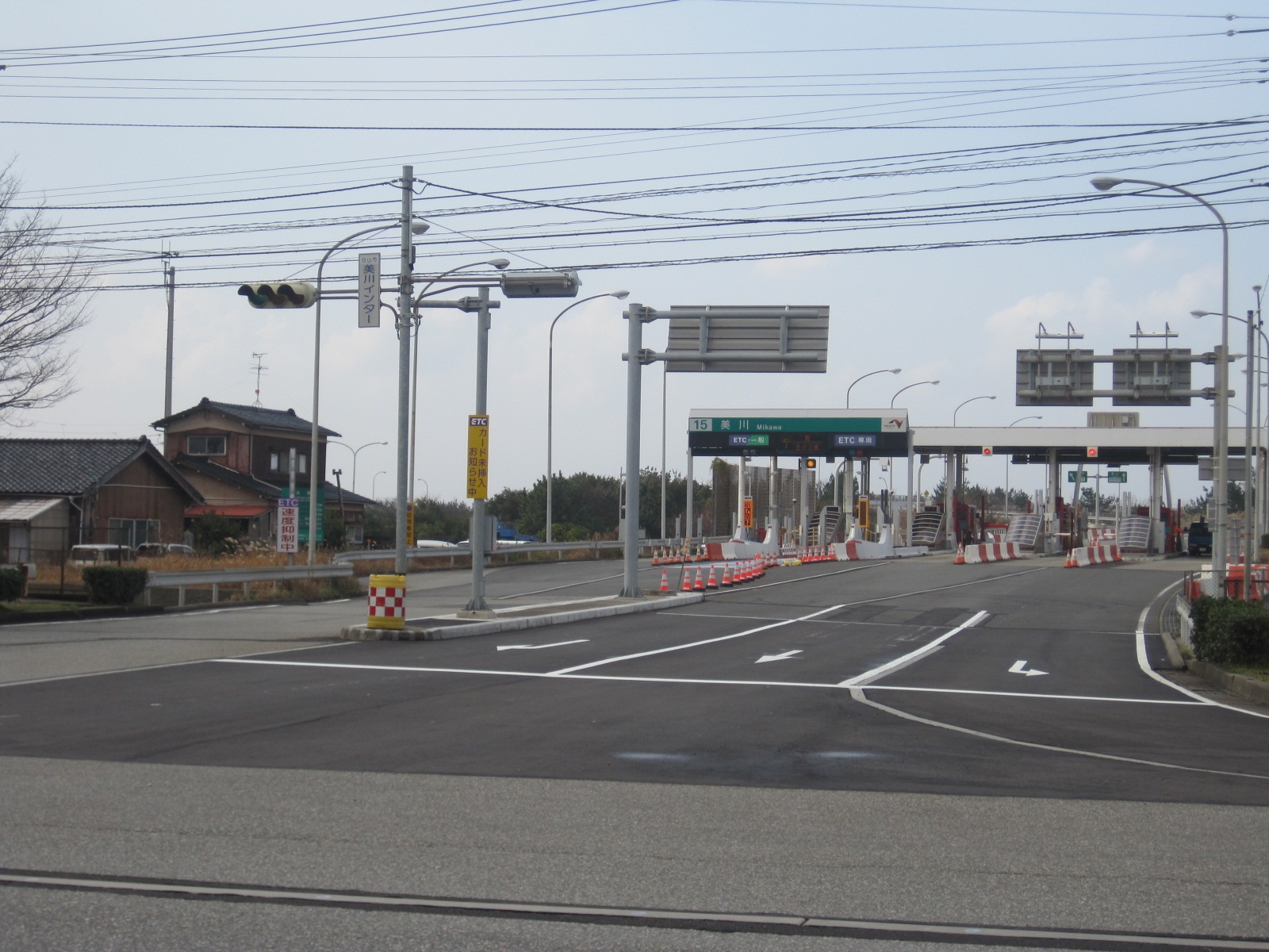 Mikawa Inter Change (Hokuriku Expressway)